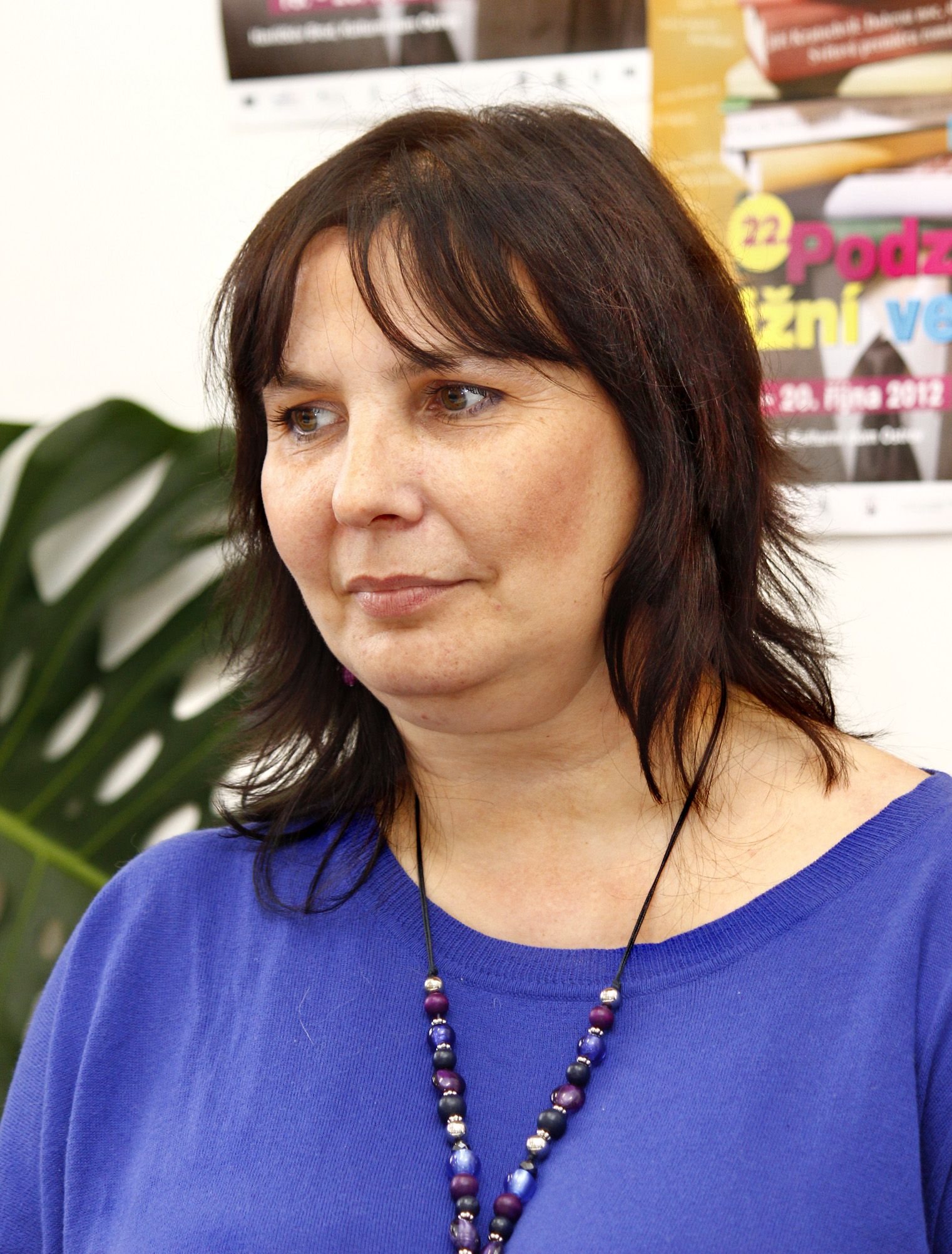 Czech writer Veronika Válková